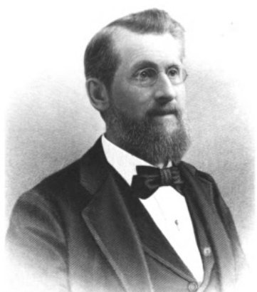 Portrait of George W. Hotchkiss